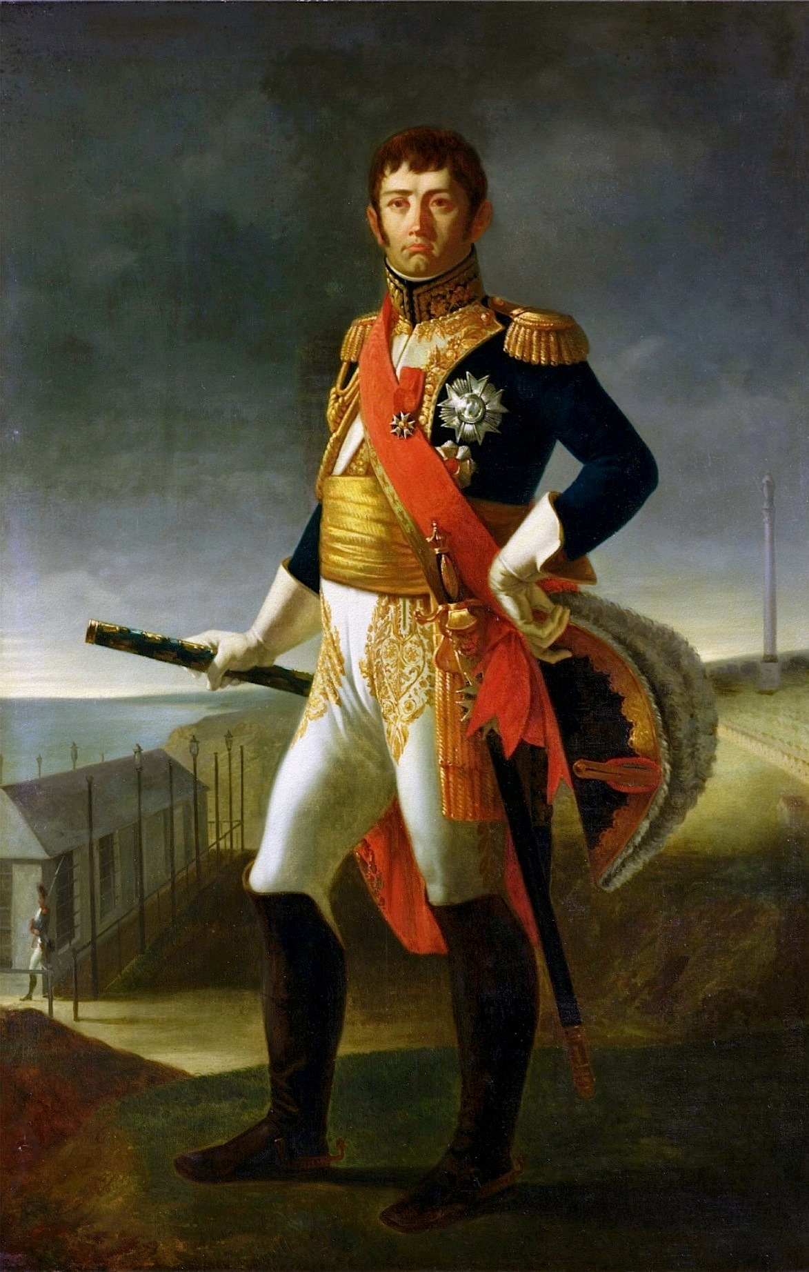 Man. Standing. Facing. Order of the Legion of Honor. Order of the Crown of Iron. Marshal. Duke of Dalmatia.